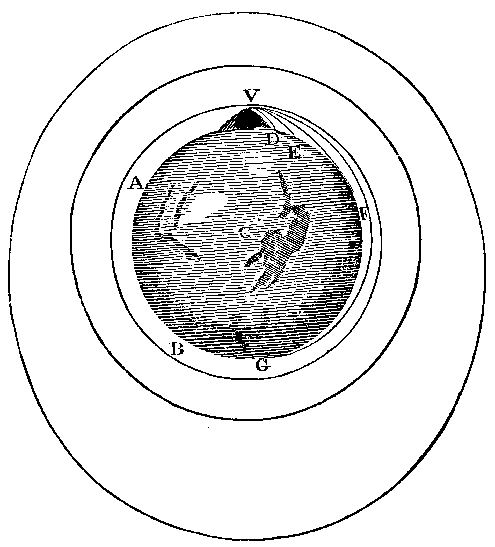 PrincipiaGraph. Famous illustration that shows how if an artillery shell (or other object) could be launched with high enough velocity, it would orbit the earth. Shows the object being launched horizontally from a high mountain (ignoring air friction).